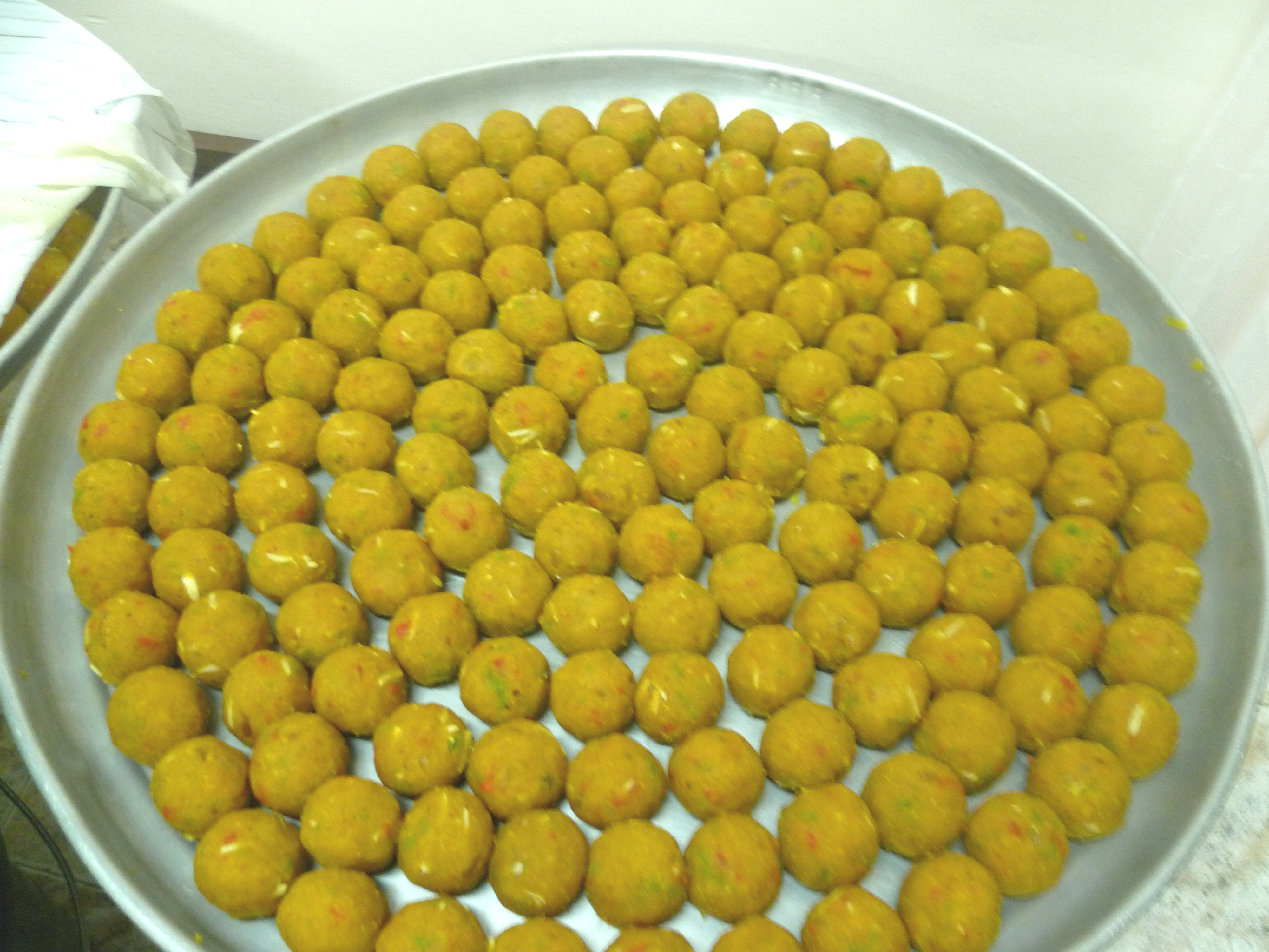 Tray of Laddus.